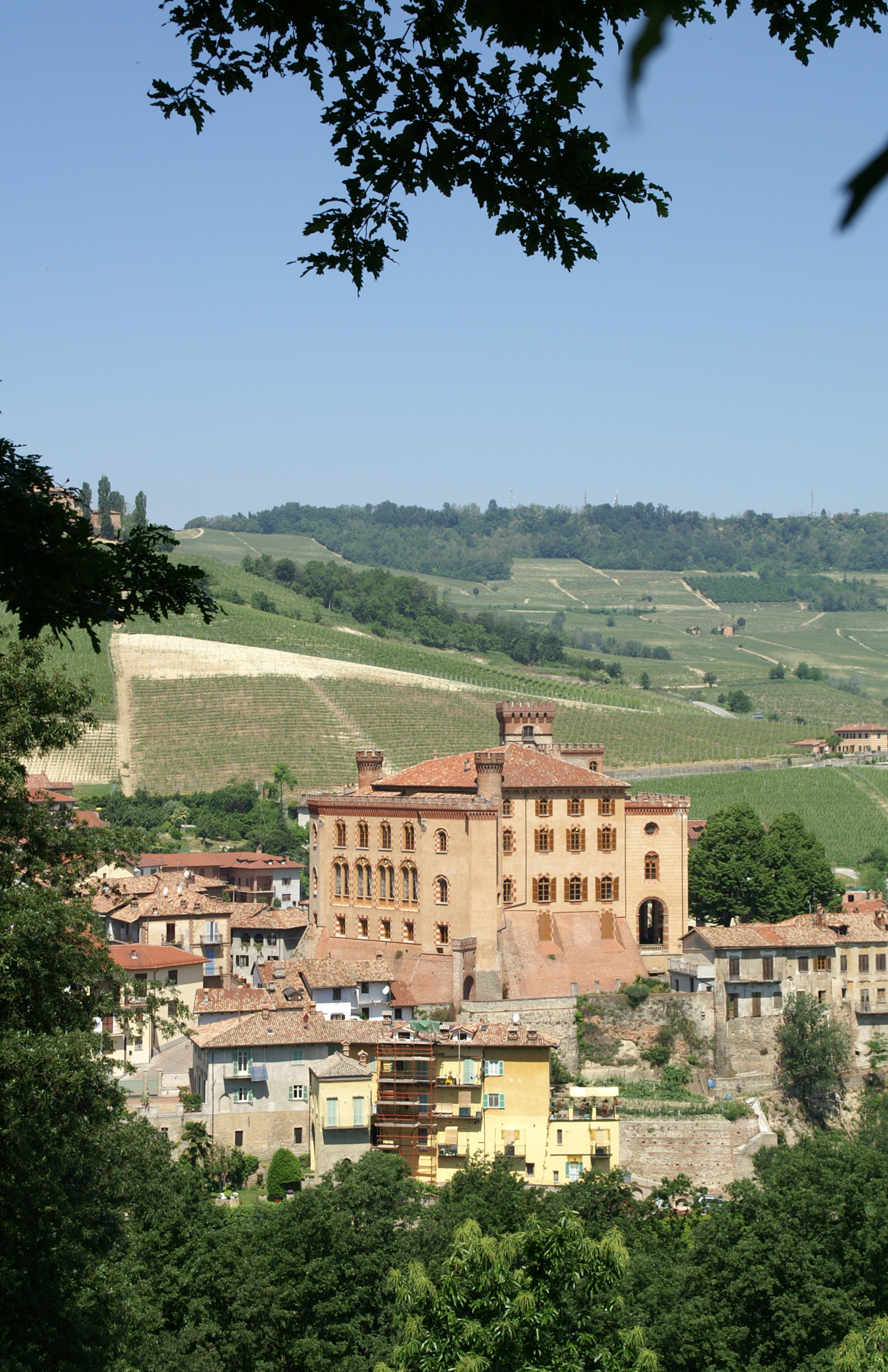 Castle and Village of Barolo.